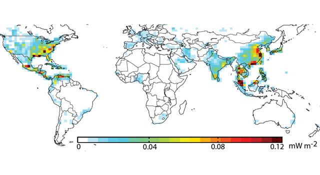 Contribution of Nitrogen Dioxide Emissions